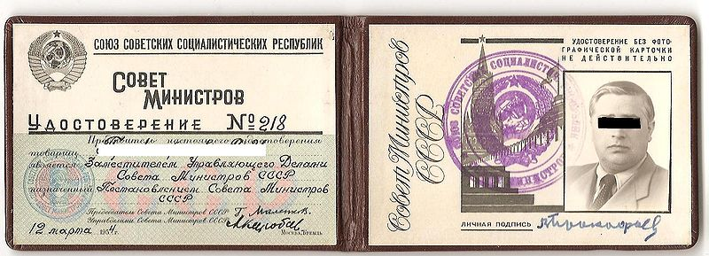 ID of the Council of Ministers of the USSR (1950's).. Visible stamp and signature of the USSR Council of Ministers, Georgy Malenkov